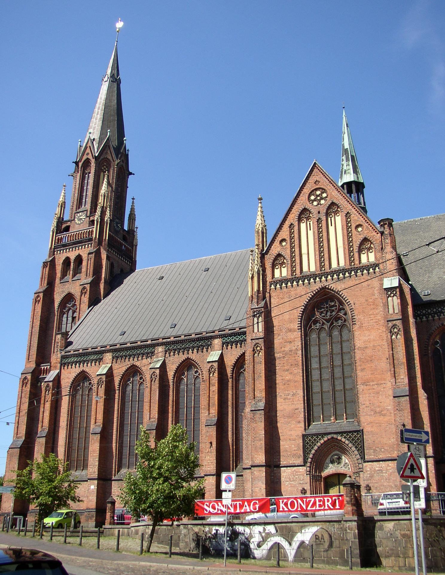 St. Paul's church in Schwerin in Mecklenburg-Western Pomerania, Germany